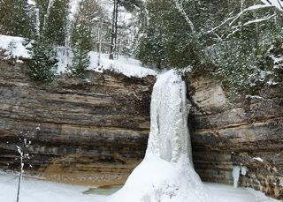 Munising waterfall is just one of the many falls in the Munising area.